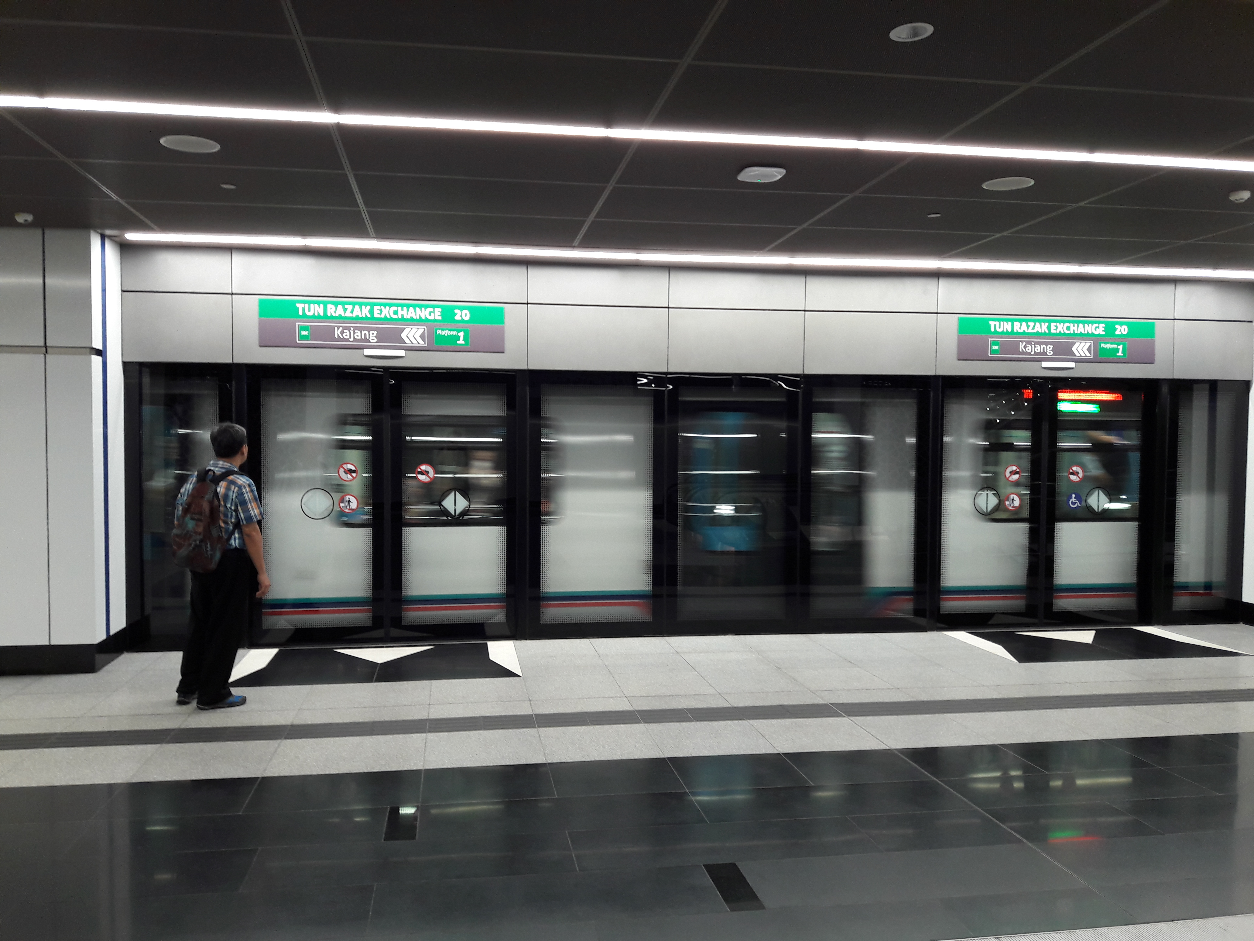 Kajang-bound platform, Tun Razak Exchange MRT Station (with MRT train)